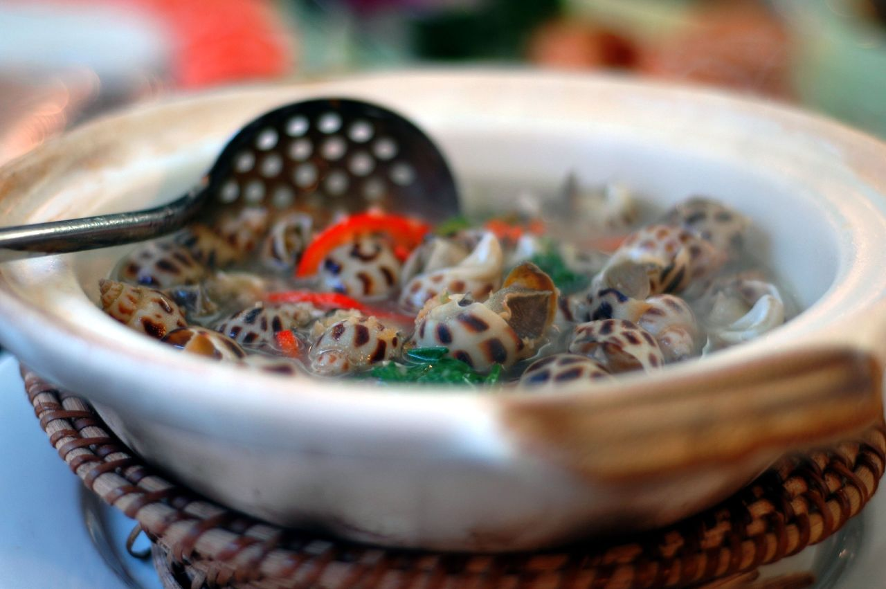 Whelk pot